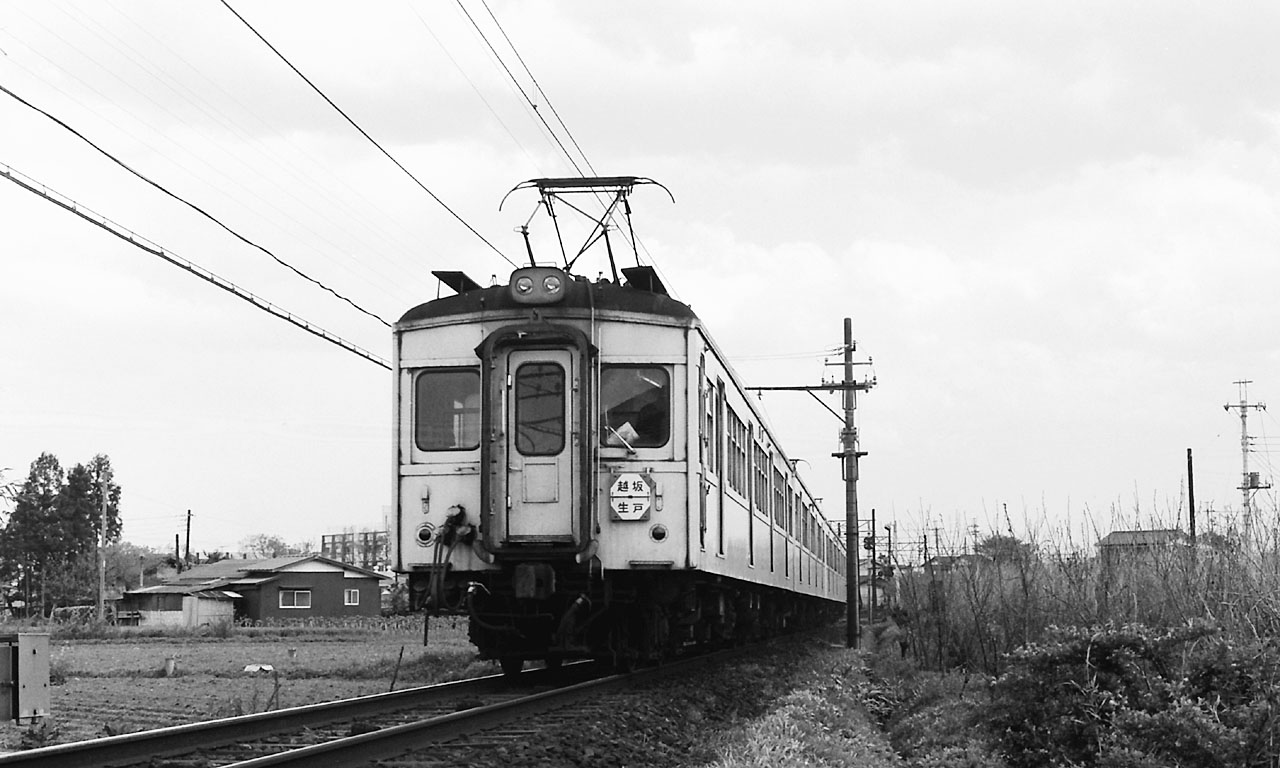 A Tobu 7800 series 4-car EMU on the Tobu Ogose Line between Ogose and Bushu-Karasawa stations